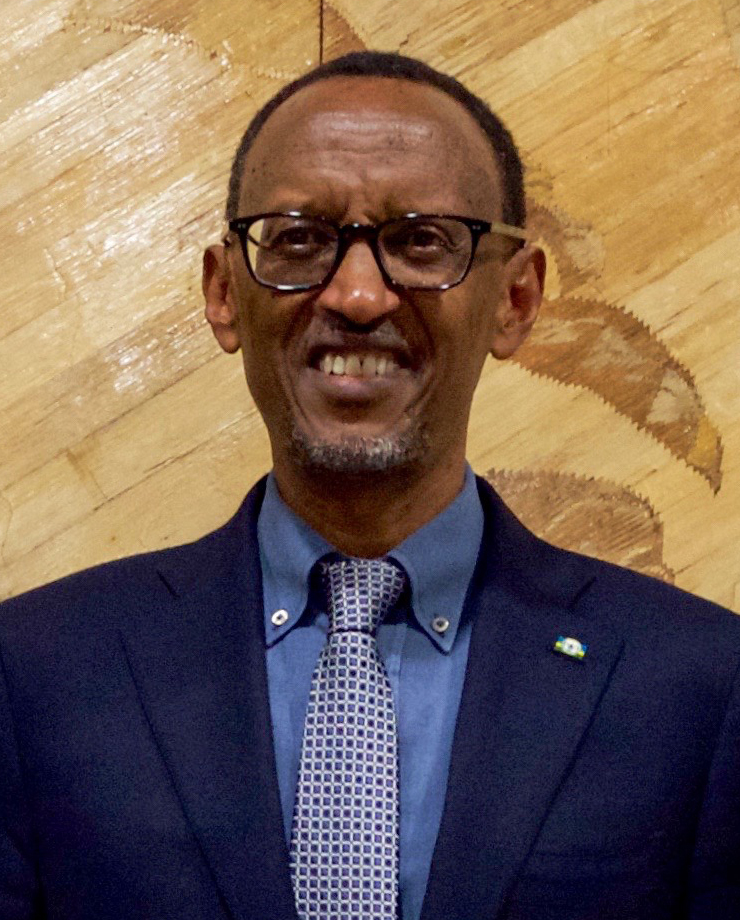 U.S. Secretary of State John Kerry and Rwandan President President Paul Kagame pose with Rwandan Minister of Foreign Affairs and Cooperation Louise Mushikiwabo and U.S. Ambassador to Rwanda Erica Barks-Ruggles at the Presidential Office in Kigali, Rwanda, on October 14, 2016, after the Secretary paid a visit to the nation's capital to attend a conference focused on amending the Montreal ozone layer protection protocol. [State Department photo/ Public Domain]